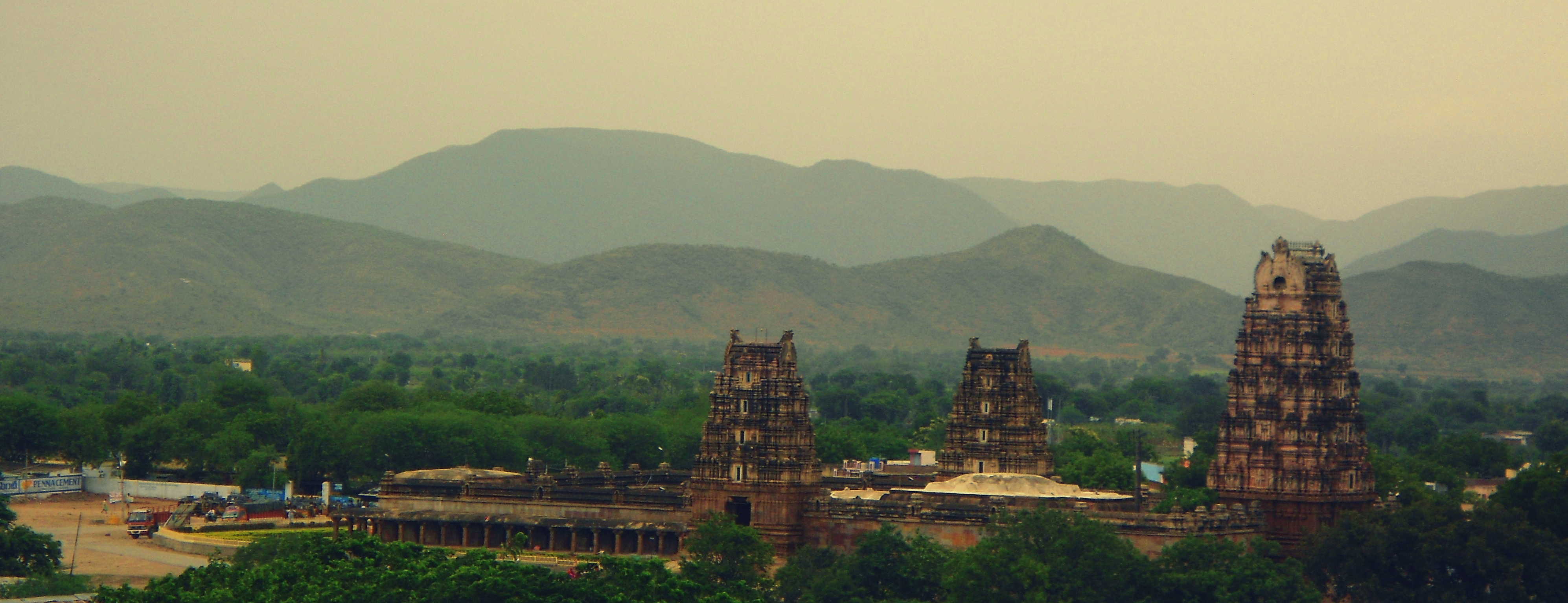 View of Temple Kondandarama swamy as known as Sree Rama